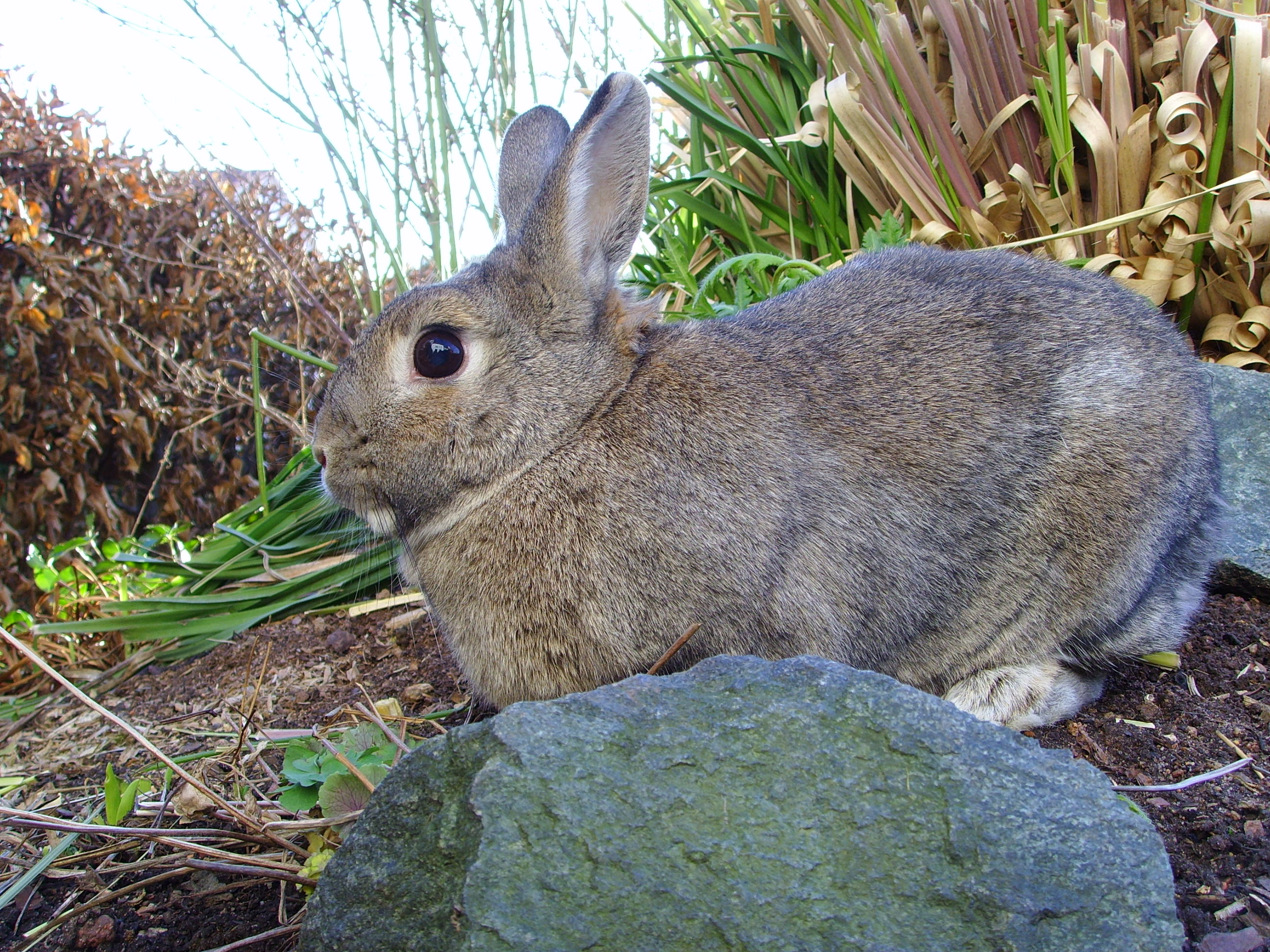 domestic rabbit this photo was taken by User:Gerbil from de.Wikipedia in February 2007